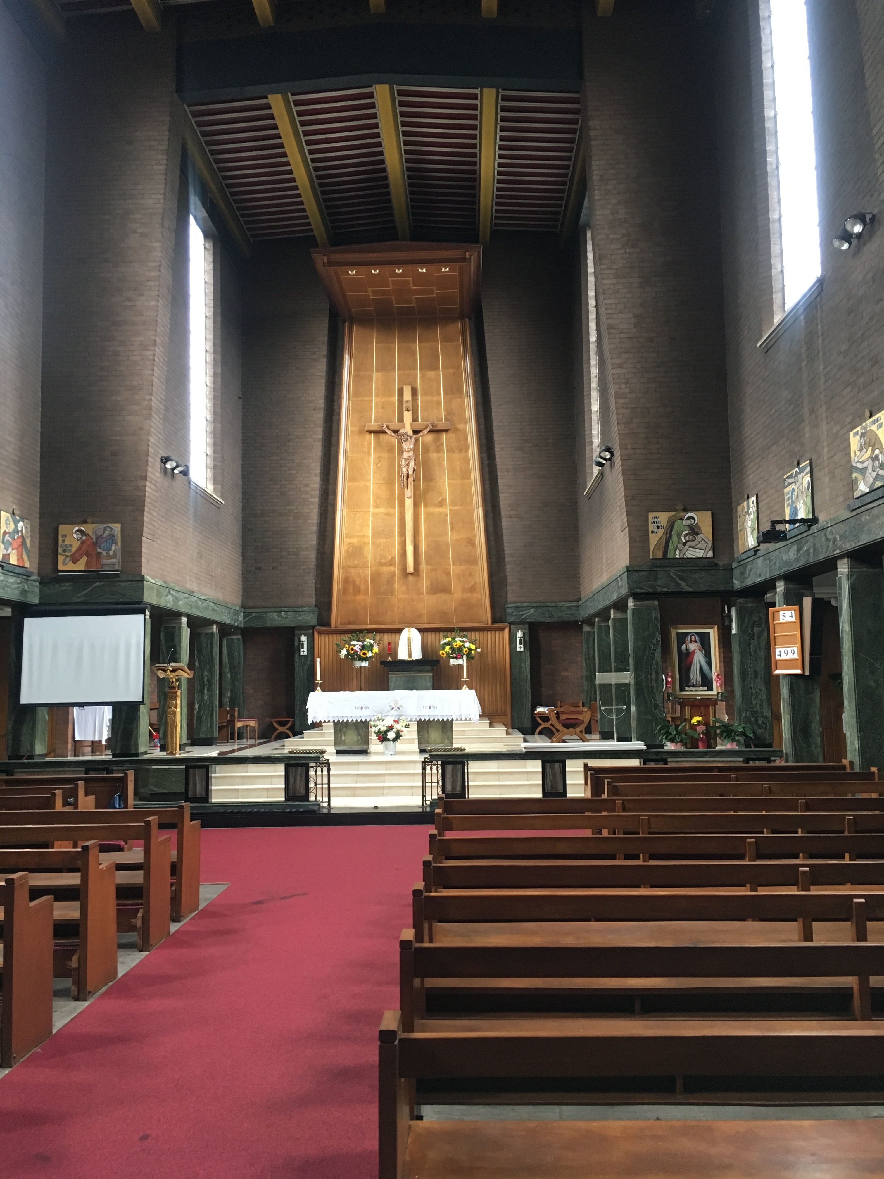 Roman Catholic Church Of The Sacred Heart Wikidata has entry Q26676955 with data related to this item.